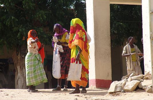 Barentu, Eritrea.